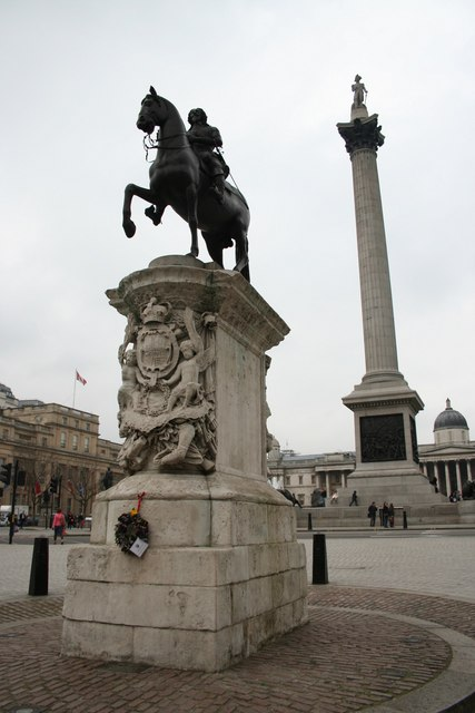 Statue of Charles I Equestrian statue of King Charles I by Le Sueur in 1633. It stands on the site of the original Charing Cross erected by Edward I c1292 as the last commemorative cross for his beloved wife Queen Eleanor (of Castile), it was destroyed during the Commonwealth. All distances to London are calculated from this spot.